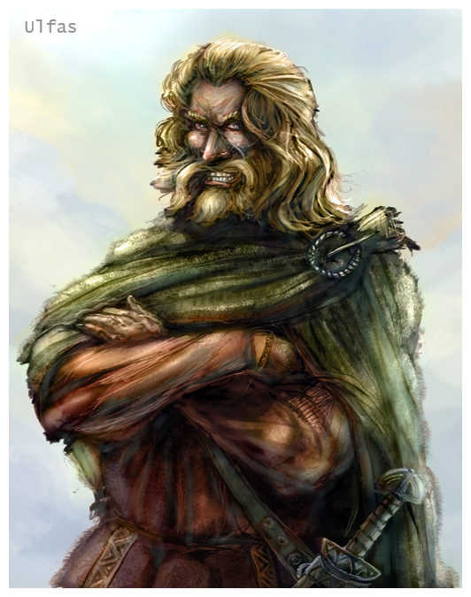 A picture representing the Easterling Ulfast who lived during the First Age in Beleriand (Middle-earth).